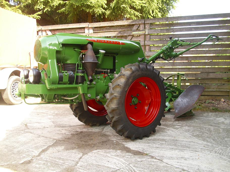 Restored Bungartz U1D two-wheel tractor (built 1952, Stihl diesel engine 131B or 131A?, 14 hp) with plough